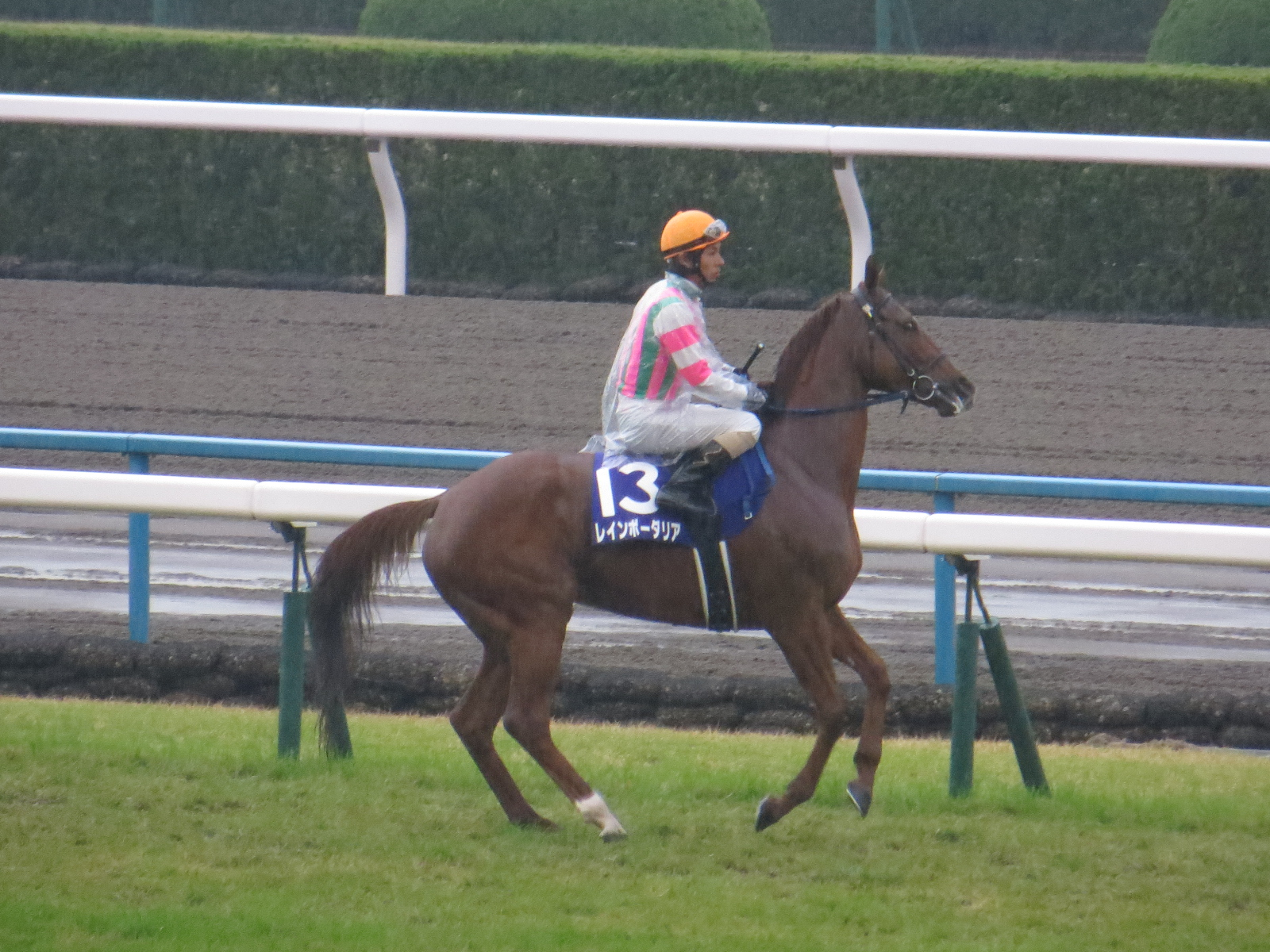 Rainbow Dahlia (Racehorse of Japan).